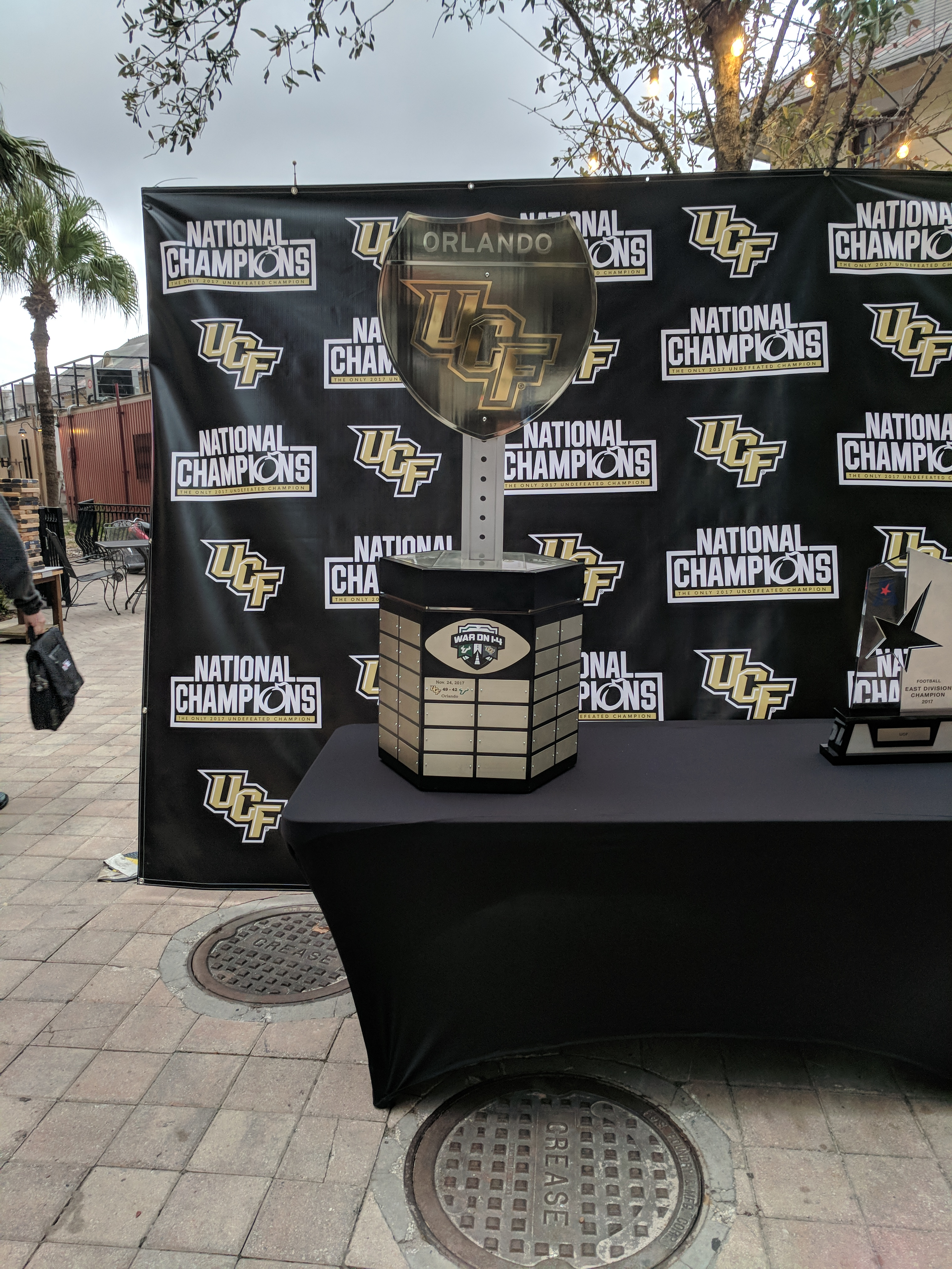 War on I-4 Trophy at the UCF National Champs Block Party